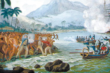 Death of Cook, undated watercolor after John Cleveley the Younger at the Honolulu Museum of Art, depicting Captain James Cook as a peacemaker between battling sailors and native Hawaiians